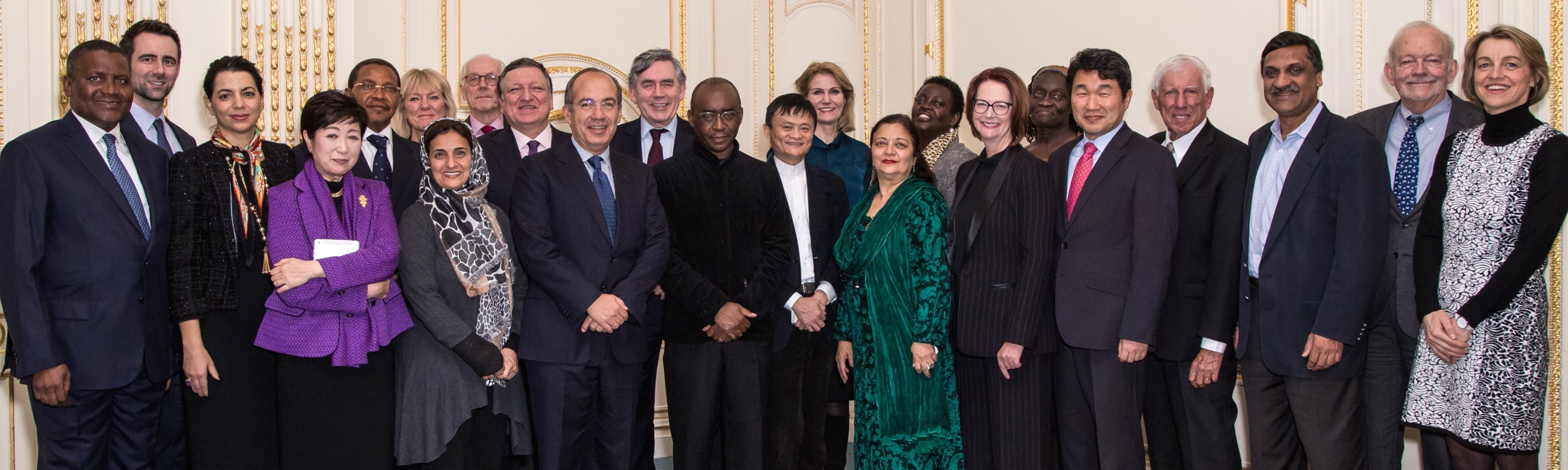 Photo Credit: Vianney Le Caer Instagram @vlecaer Twitter @v_lecaer